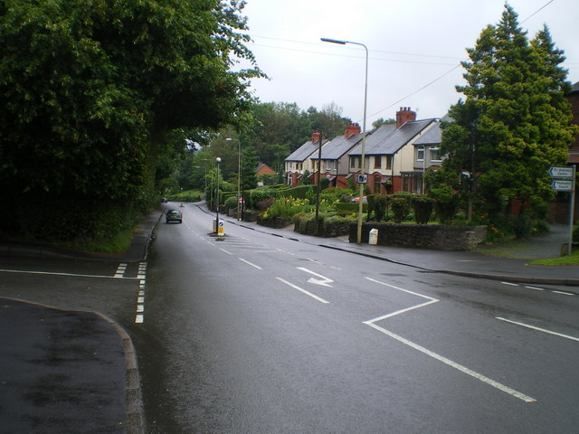 Cheddleton milepost on Cheddleton Hill